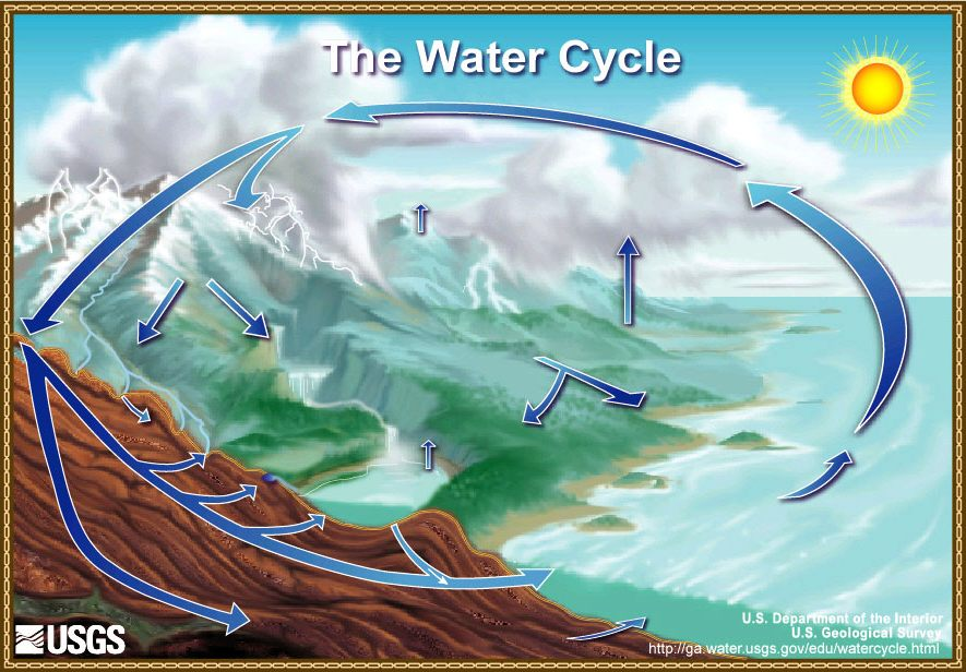 Water cycle with no text.